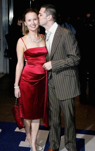 Kenny Doughty kissing his wife Caroline Carver at 'The Aryan Couple' red carpet London